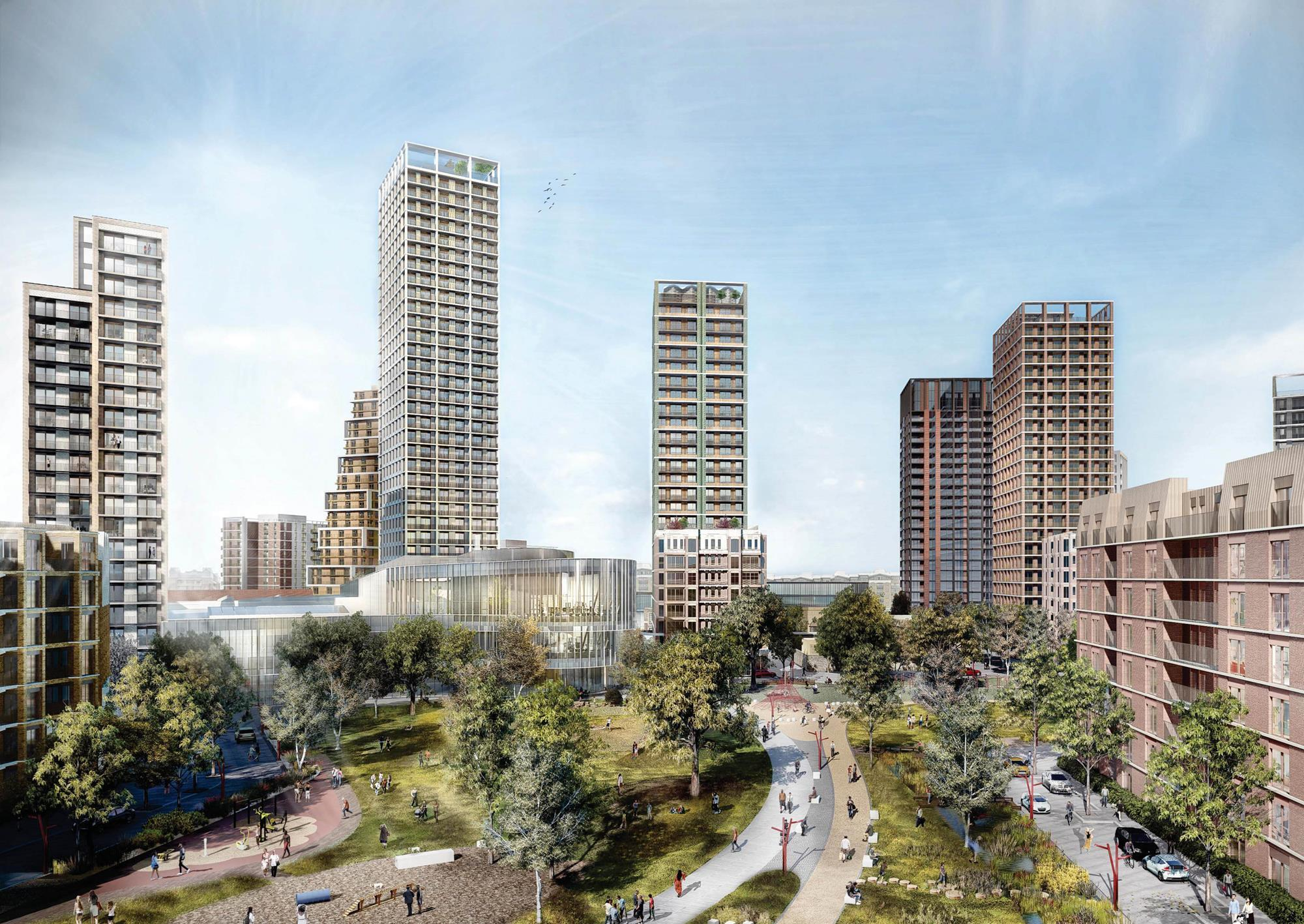 Shows proposed regeneration plan for two large council estates in Battersea, Wandsworth by Clapham Junction station.